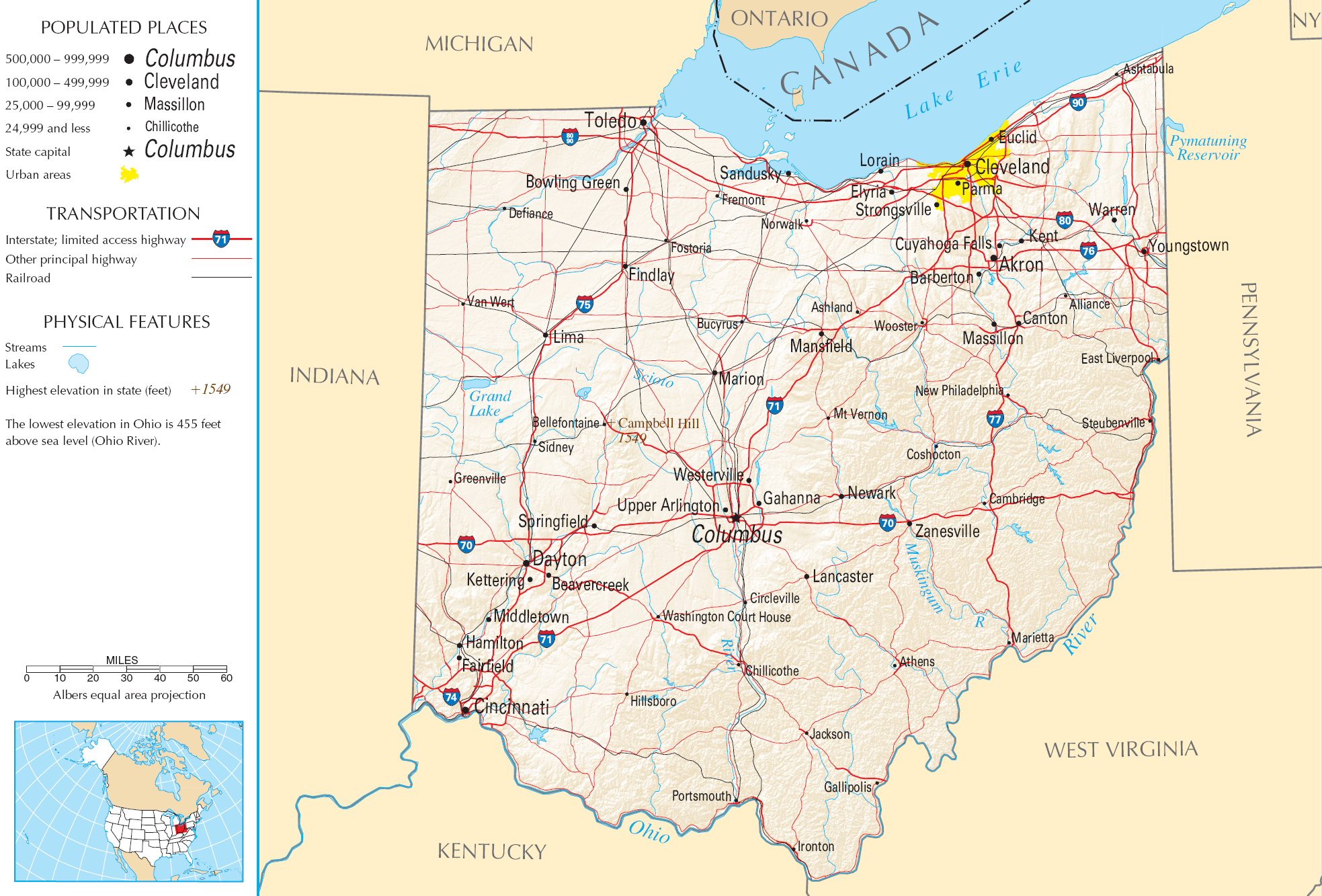 Map of Ohio